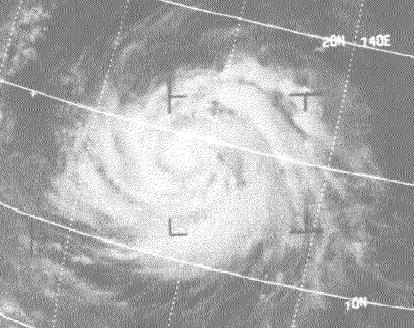 1971's Typhoon Irma on November 11. At the time, this typhoon held the record for the quickest intensification in 24 hours, deepening 95 mbar. The record was subsequently lost to 1983's Super Typhoon Forrest.